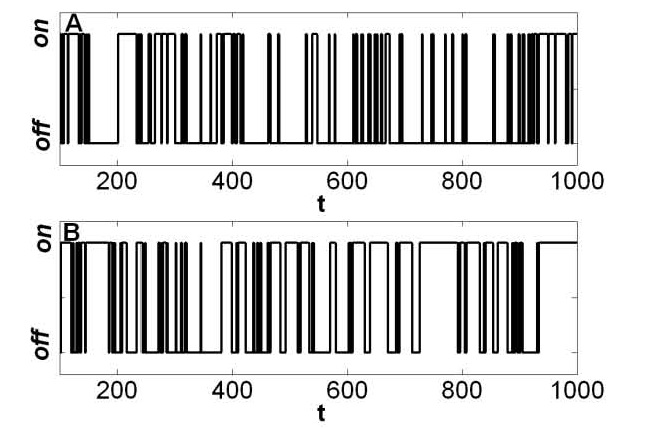 An exmaple for two-state trajectories